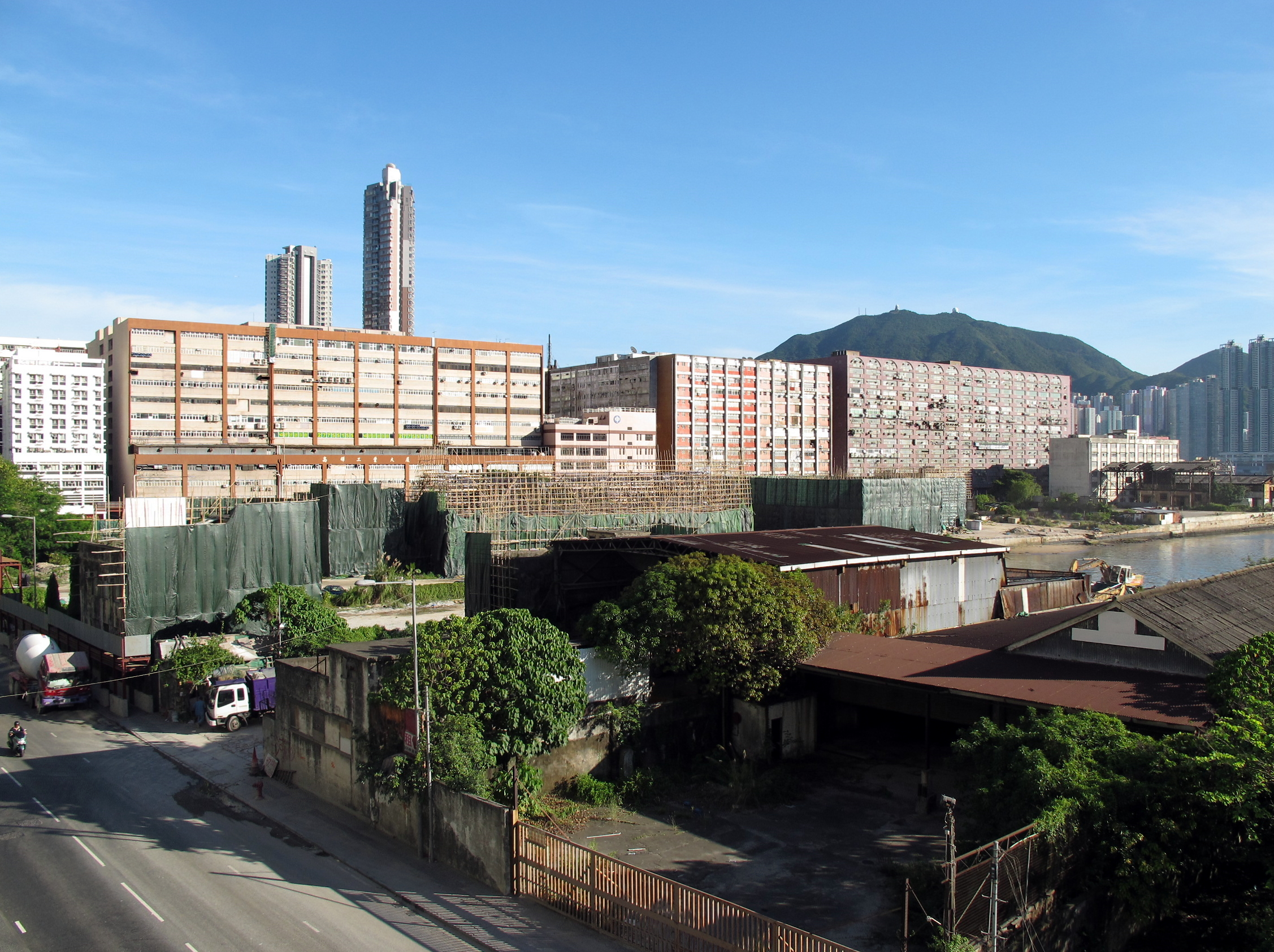 Yau Tong Old Buildings